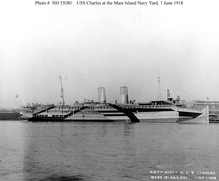 United States Navy transport USS Charles (ID-1298) at Mare Island Navy Yard, Vallejo, California